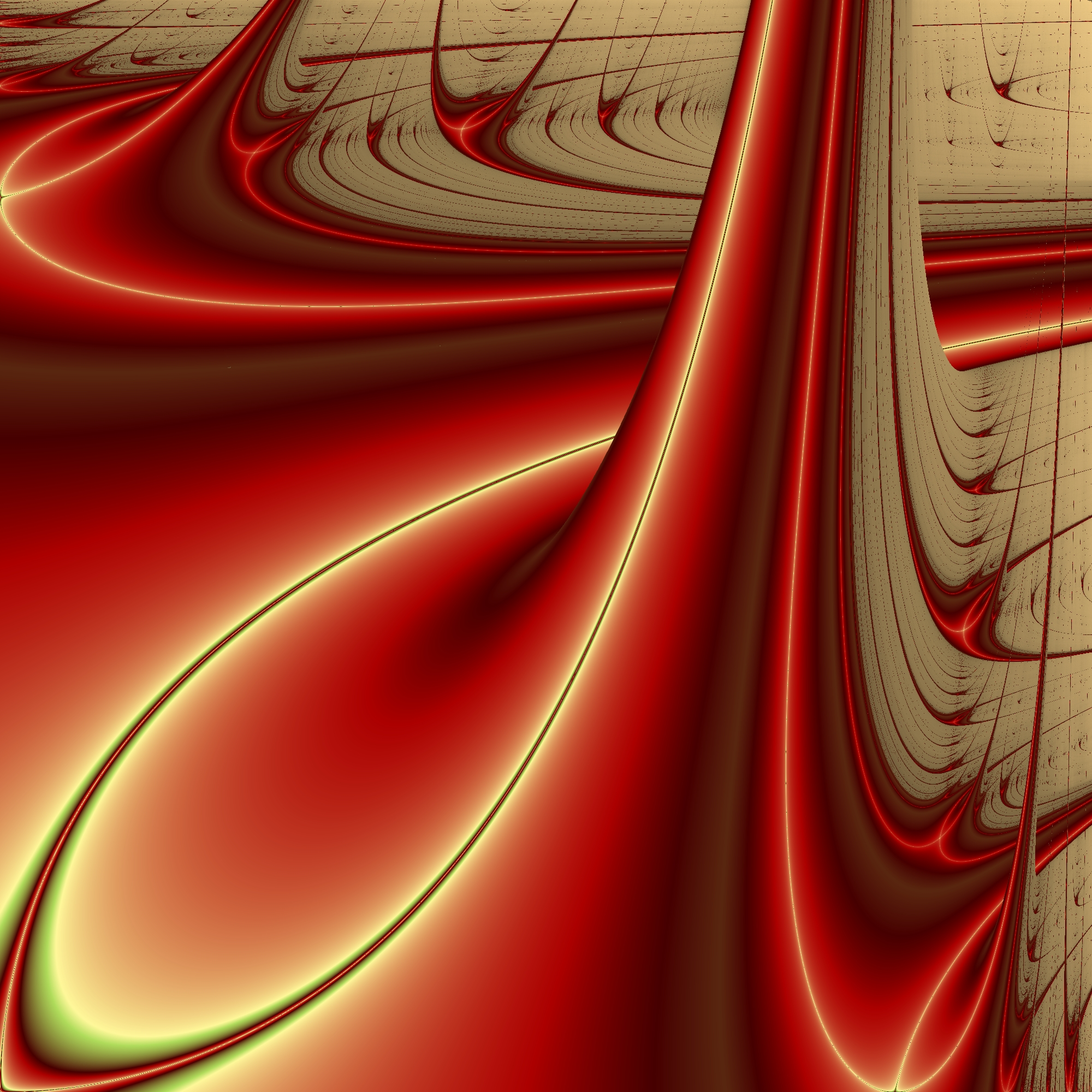 Lyapunov fractal for the sequence ba, for the growth parameter region ( a , b ) ∈ [ 2 , 4 ] × [ 2 , 4 ] {\displaystyle (a,b)\in [2,4]\times [2,4]} , known as Lyapunov Space. Generated with MatheGrafix 9.40.